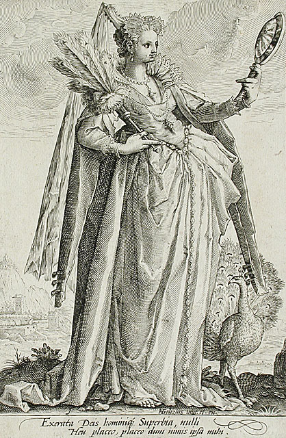 Pride, Print, Engraving, 21.91 x 14.45 cm. From Matham's series The Vices. After Hendrik Goltzius.